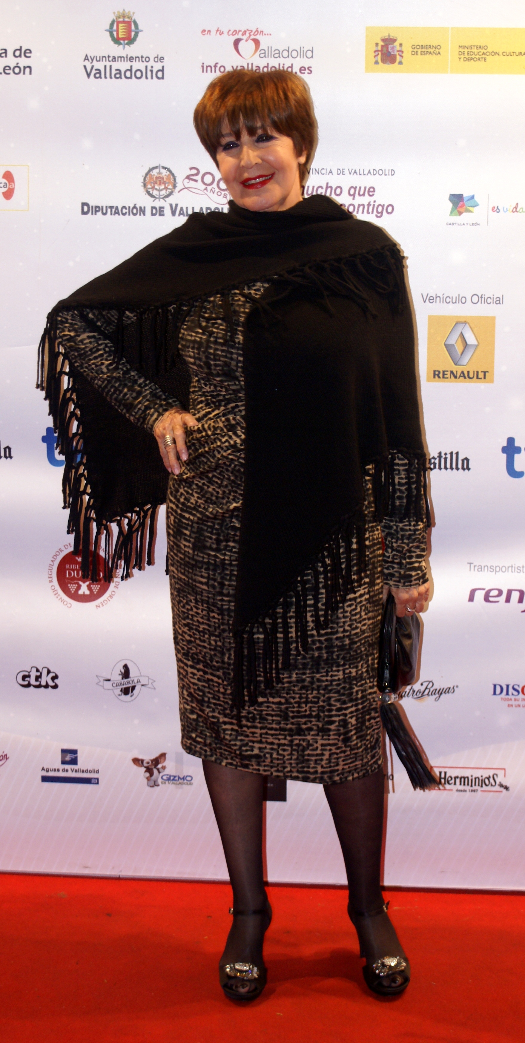 Concha Velasco, Spanish actress, just before being awarded with the honorific Espiga de Oro of the 2013 Seminci. Calderón Theatre, Valladolid, Spain.